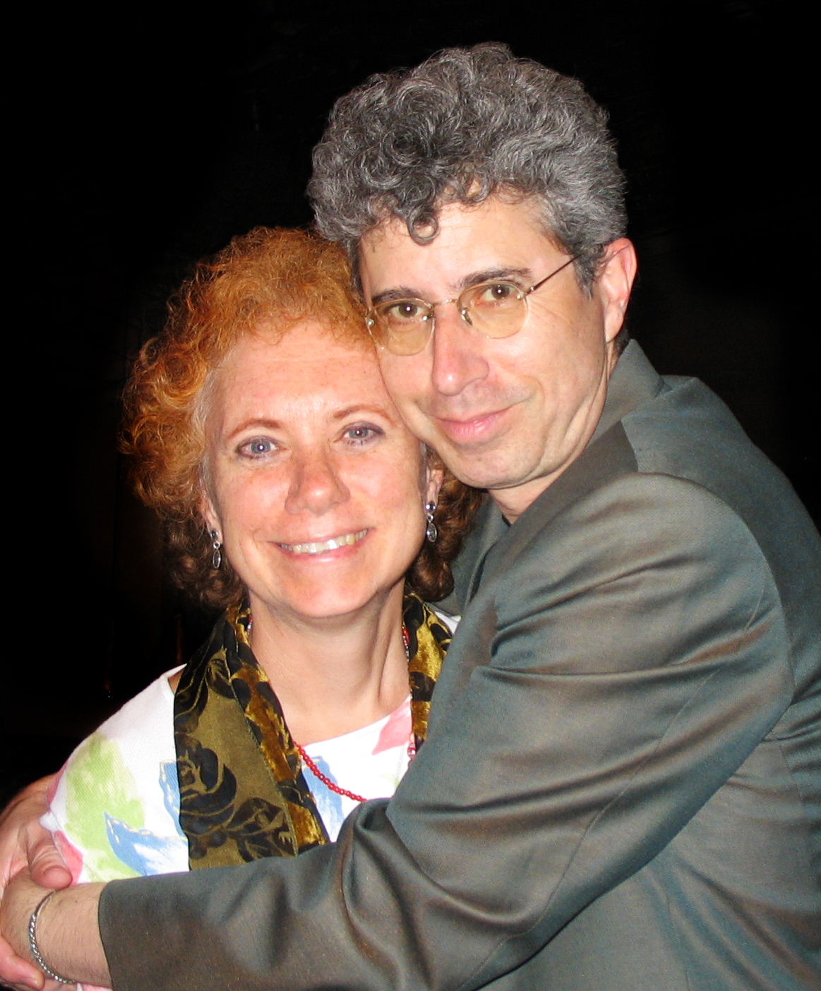 Filmmaker Karen Aqua and her husband musician/composer Ken Field.